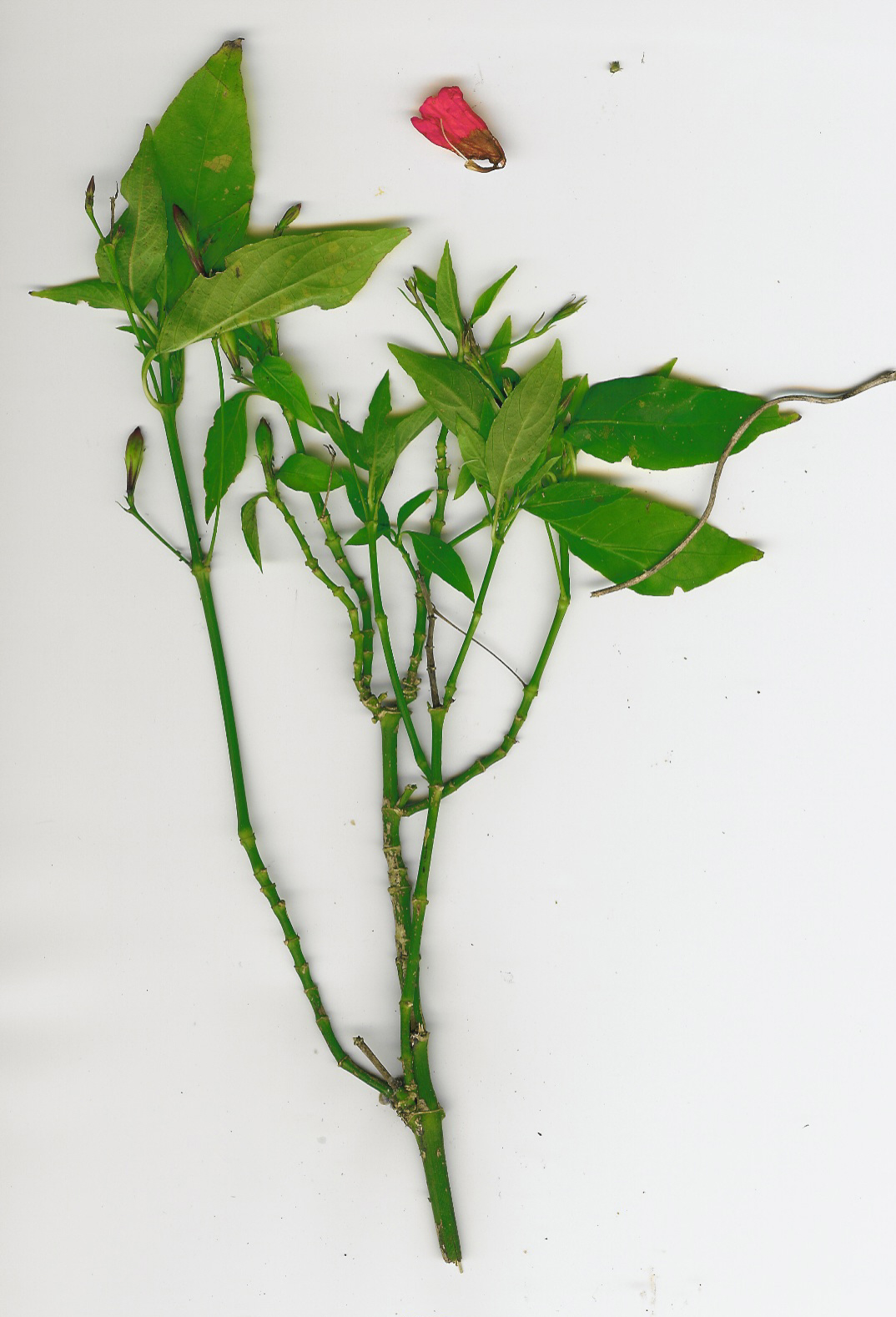 Ruellia brevifolia (plant). Location: Lanai, Queens St